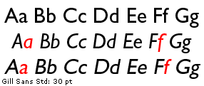 Gill Sans Std, 30 pt, in regular, italic and oblique style. No copyright is assigned to this picture, however the actual font may be under copyright in some countries that recognize copyright or copyright-like rights in typefaces. The oblique style in generated by a computer and is not from the original font.